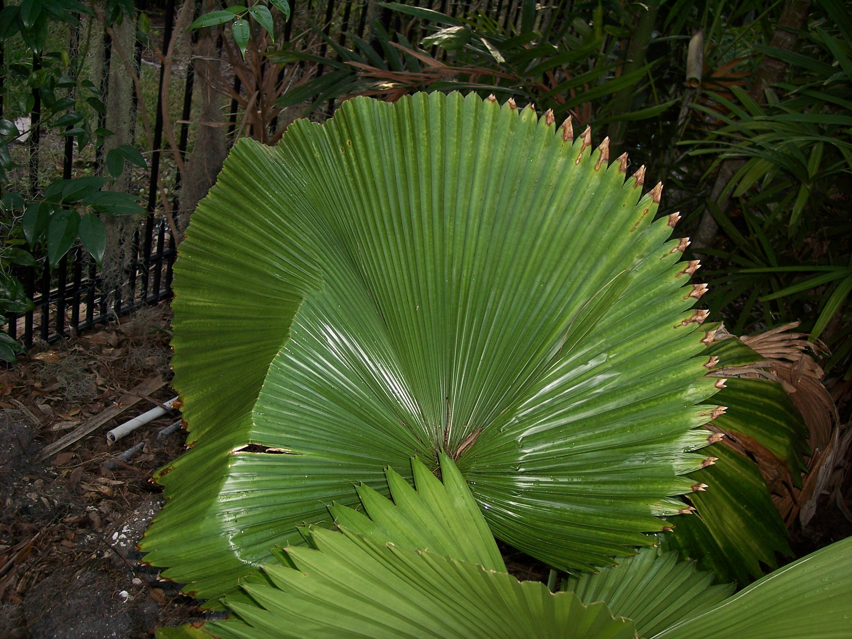 "Licuala peltata foliage